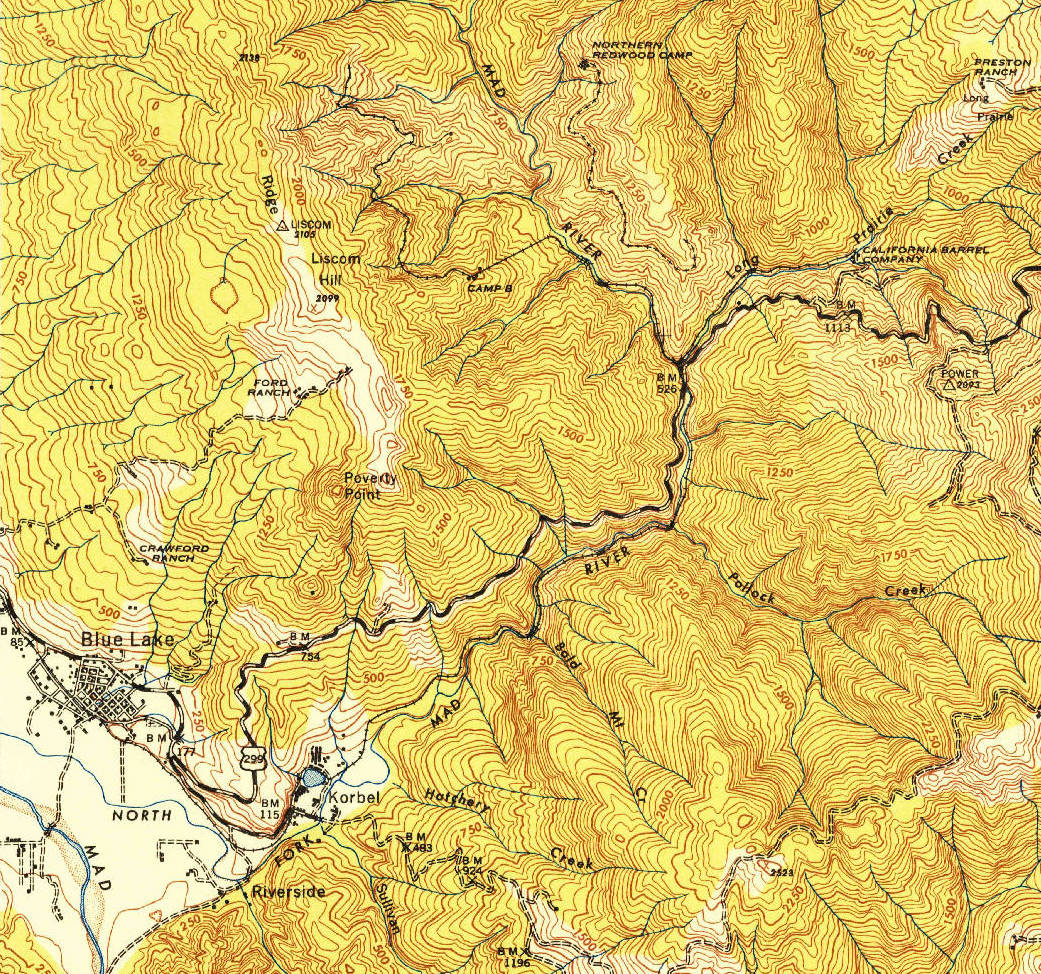 The next series of changes resulted in removing old track and building new in the 1940s when all the old track was gone and standard gauge for 7.5-mile (12.1 km) was installed